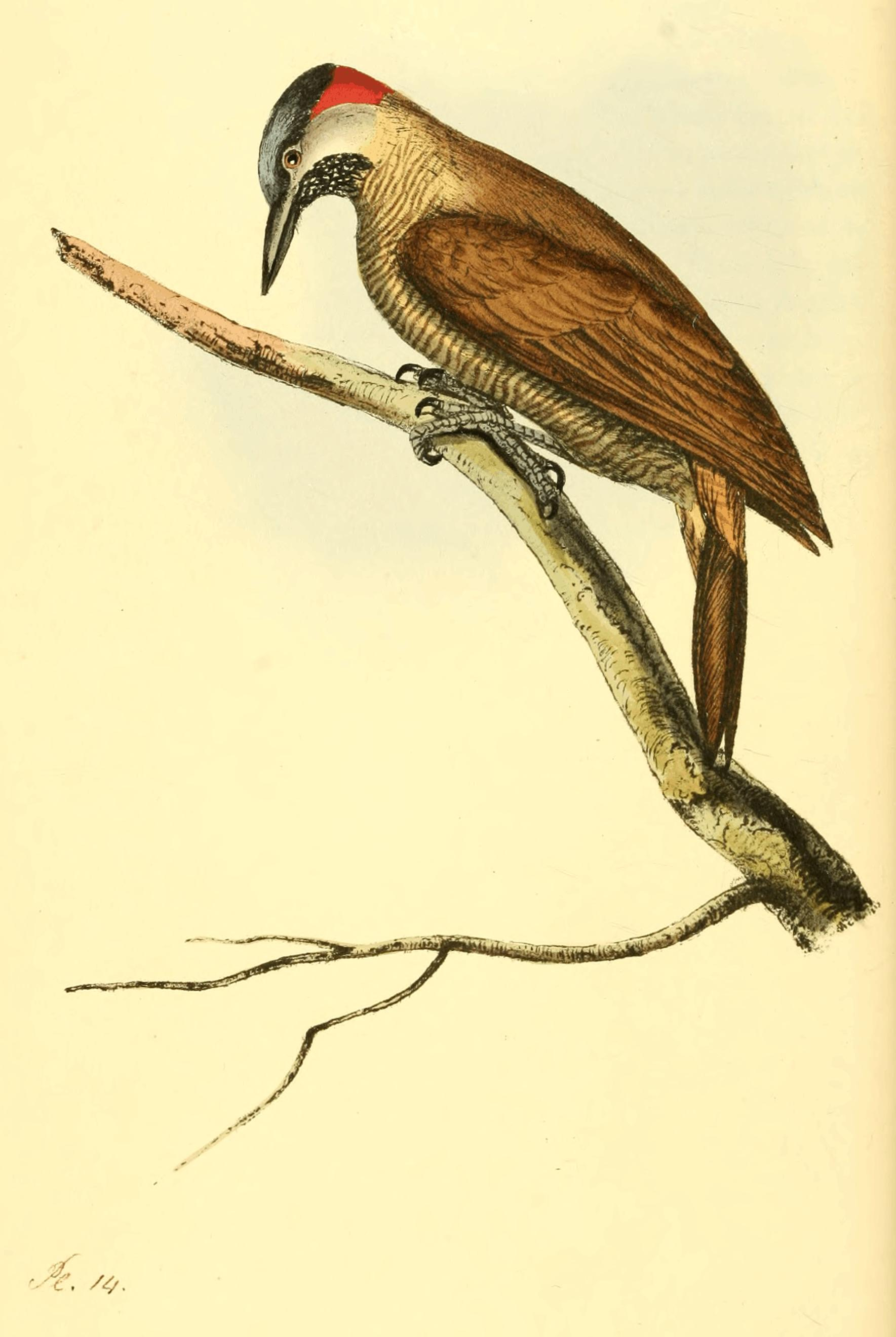 Plate 14. Picus rubiginosus. Brown Woodpecker. Modern accepted name (2012) is Colaptes rubiginosus[1].